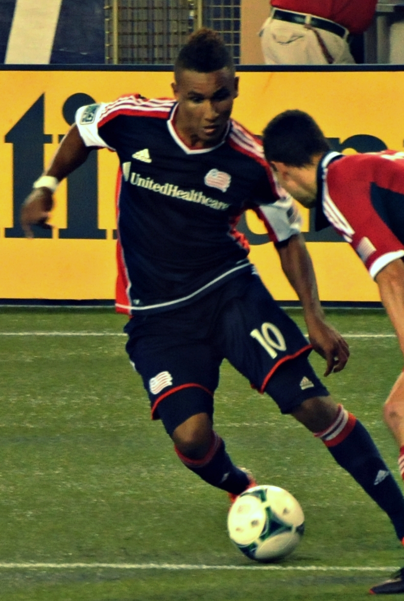 Taken during an MLS regular season match between New England Revolution and Chicago Fire SC at Gillette Stadium in Foxborough, Massachusetts on August 17, 2013.